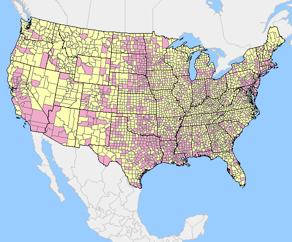 Map of the United States showing counties where West Nile virus infections have been reported. Final data from May 3, 2013.